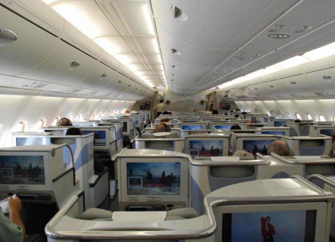 Business Class of the Airbus 380 travelling from Dubai to Sydney in June 2009